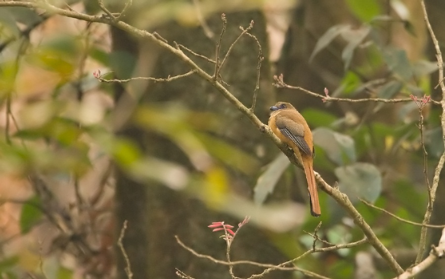 Female Malabar Trogon (Harpactes fasciatus) At Ganeshgudi of Western Ghats of India.